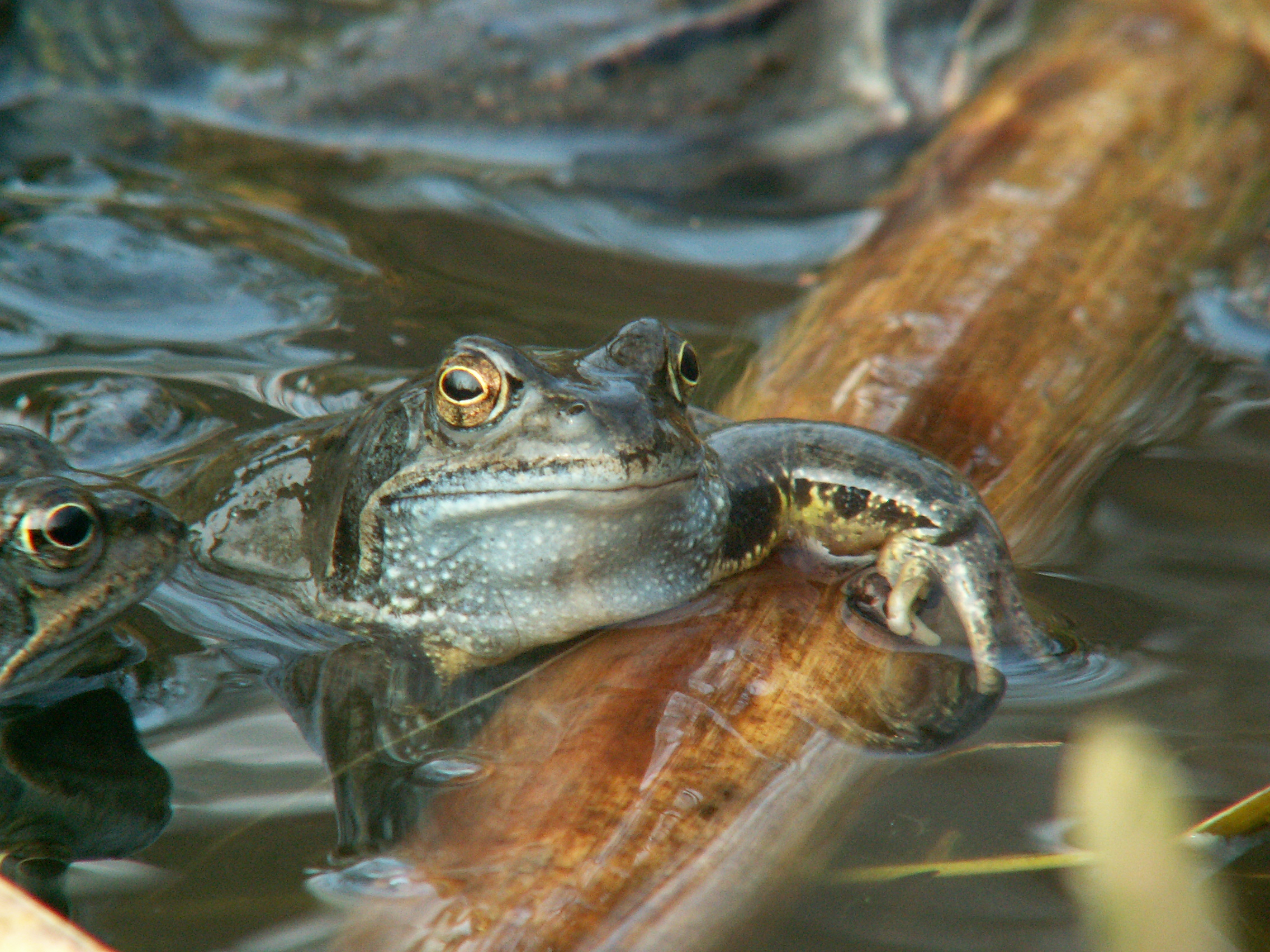 Male of Rana temporaria, notice the thickened forelegs and the small pillow at the thumb, used to hold the females in amplex